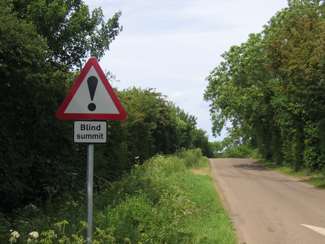 Blind summit. On the lane from Quarry Farm as it passes near Orchard Hill.